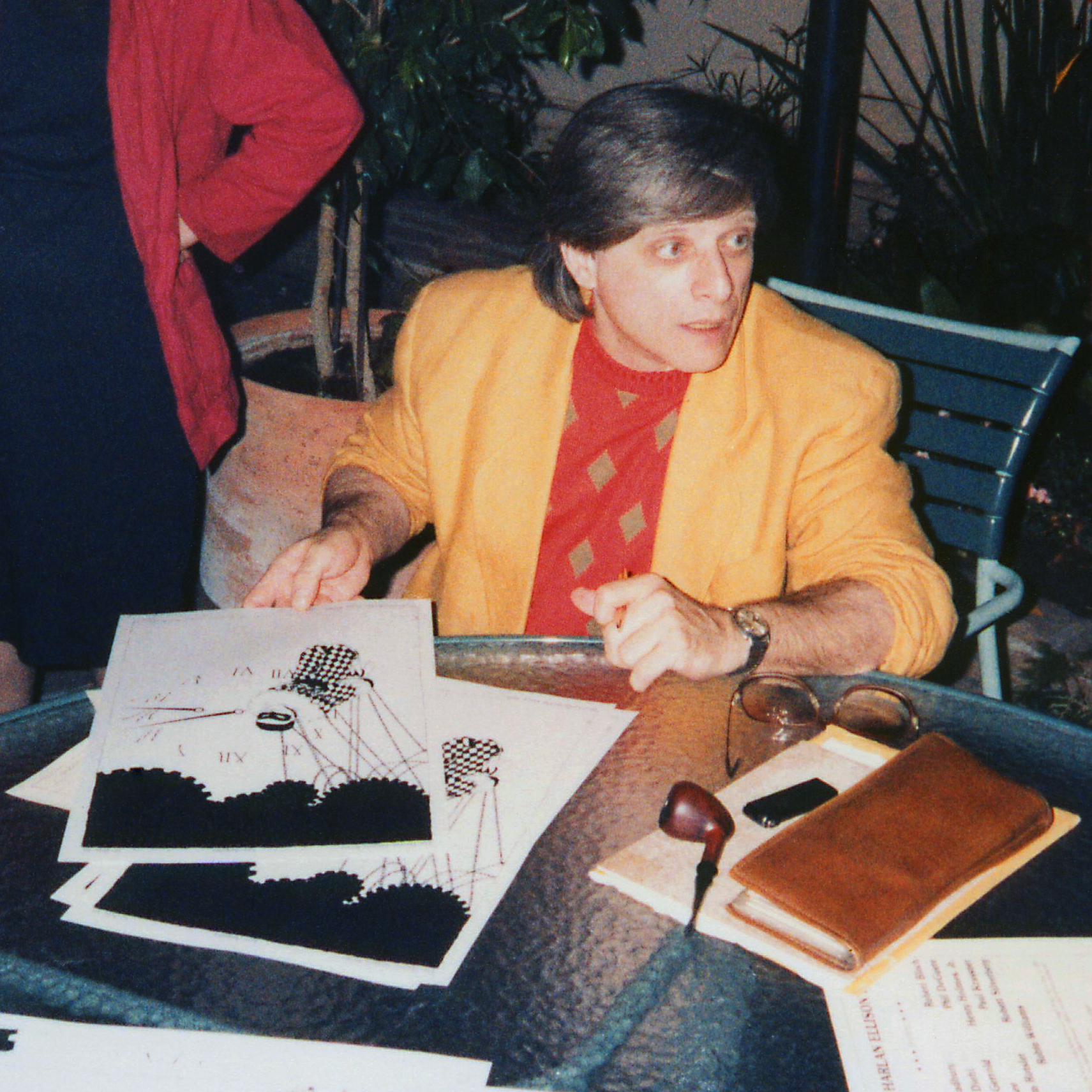 Harlan Ellison at the Harlan Ellison Roast. L.A. Press Club July 12, 1986. Los Angeles, California.